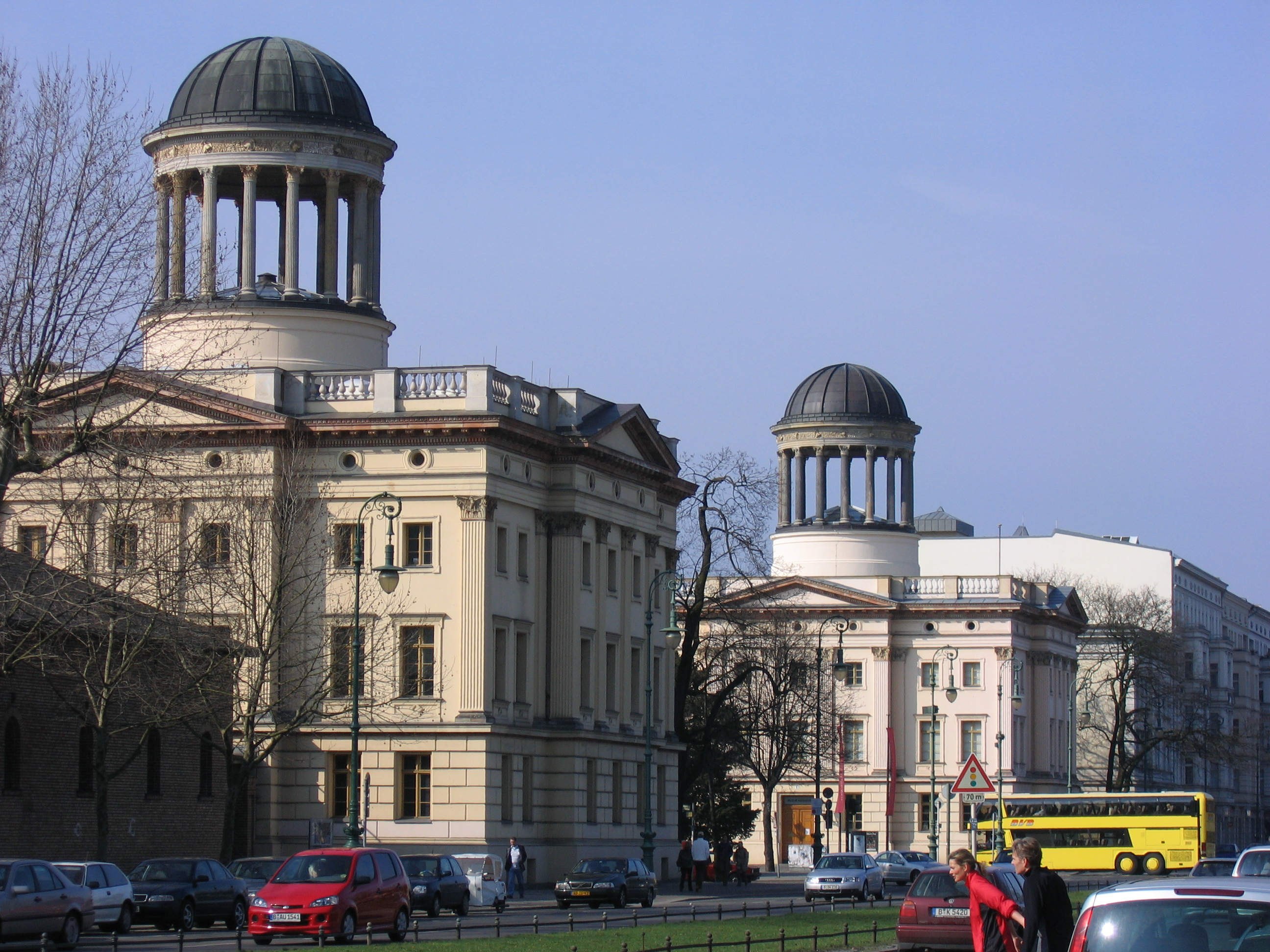 The eastern and the western Stüler Building southerly opposite to Charlottenburg Palace